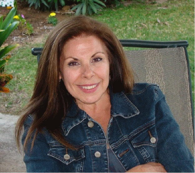 Author Joan Mohr